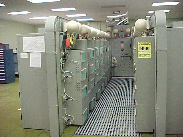 LORAN Station Malone, Florida: View of middle section of transmitter banks.